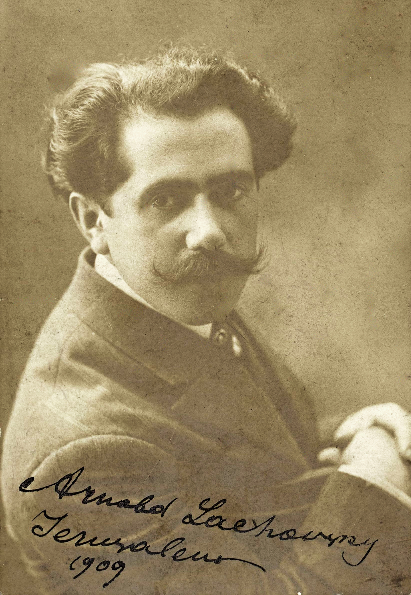 Picture of Arnold Lakhovsky